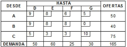 Tabla de transporte